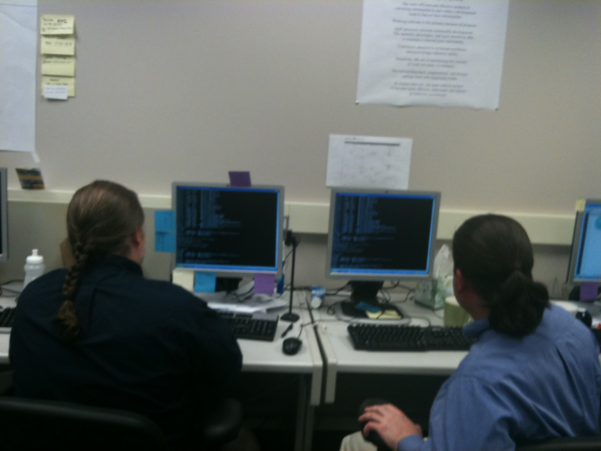 Pair programming with two displays